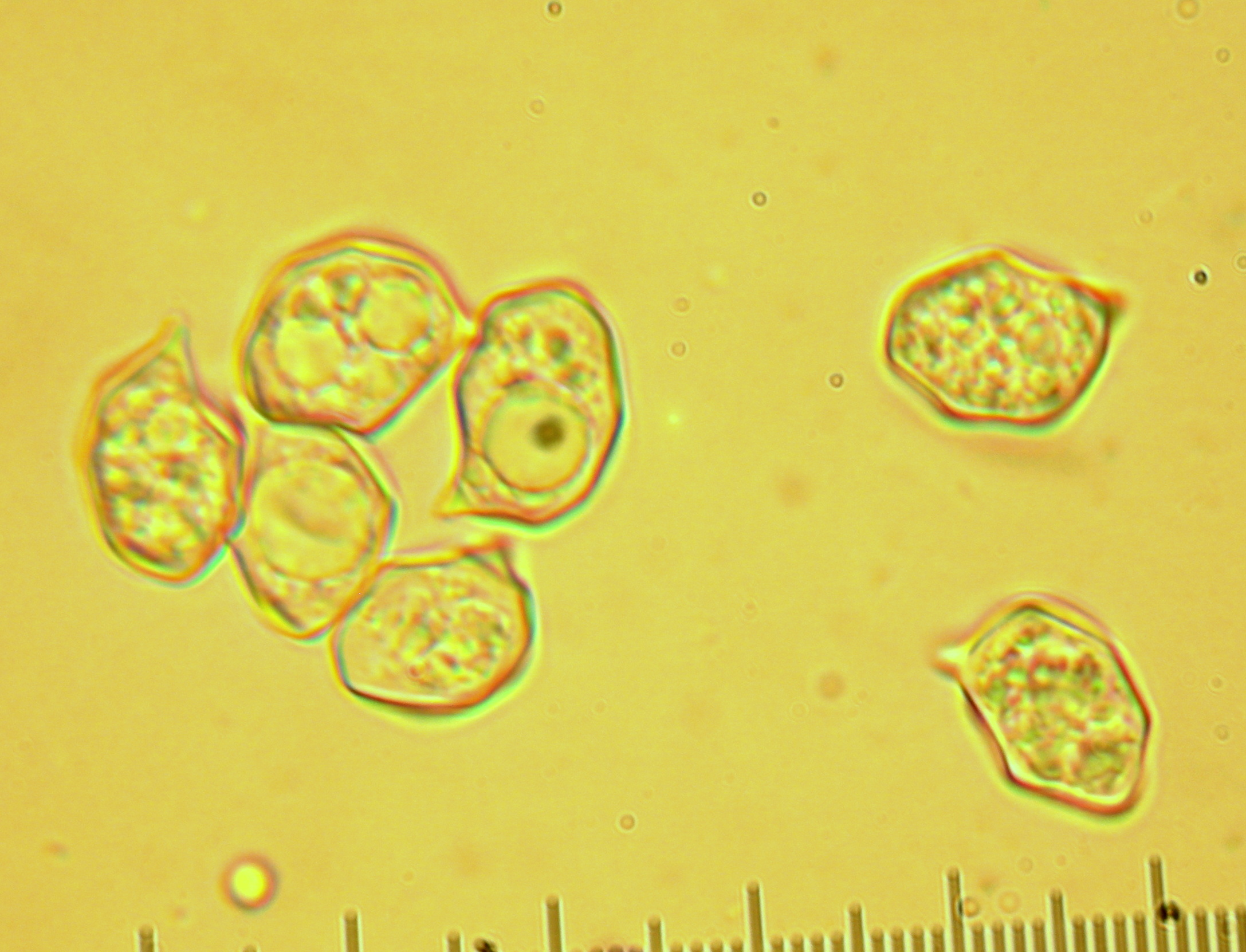 Entoloma formosum (Fr.) Noordel. Image location: Bon Tempe Reservoir, Marin Co., California, USA These seemed to be growing on the ground where their was mixed woods of Live oak, Doug fir and some Redwood. Caps were up to ~ 4.5 cm across. They were largely umbilicate and the thin brownish cuticle tended to break and peel off. The pink spores were ~ 10.0-12.0 X 8.0-9.0 microns, angular, with the majority 5-6 sided. Some species of “Leptonia” I would guess, but can’t seem to match them up. Used references: For more information about this, see the observation page at Mushroom Observer.